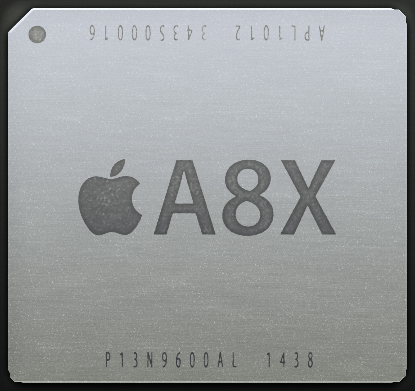 Apple A8X system-on-a-chip. This is the one in the iPad Air 2.